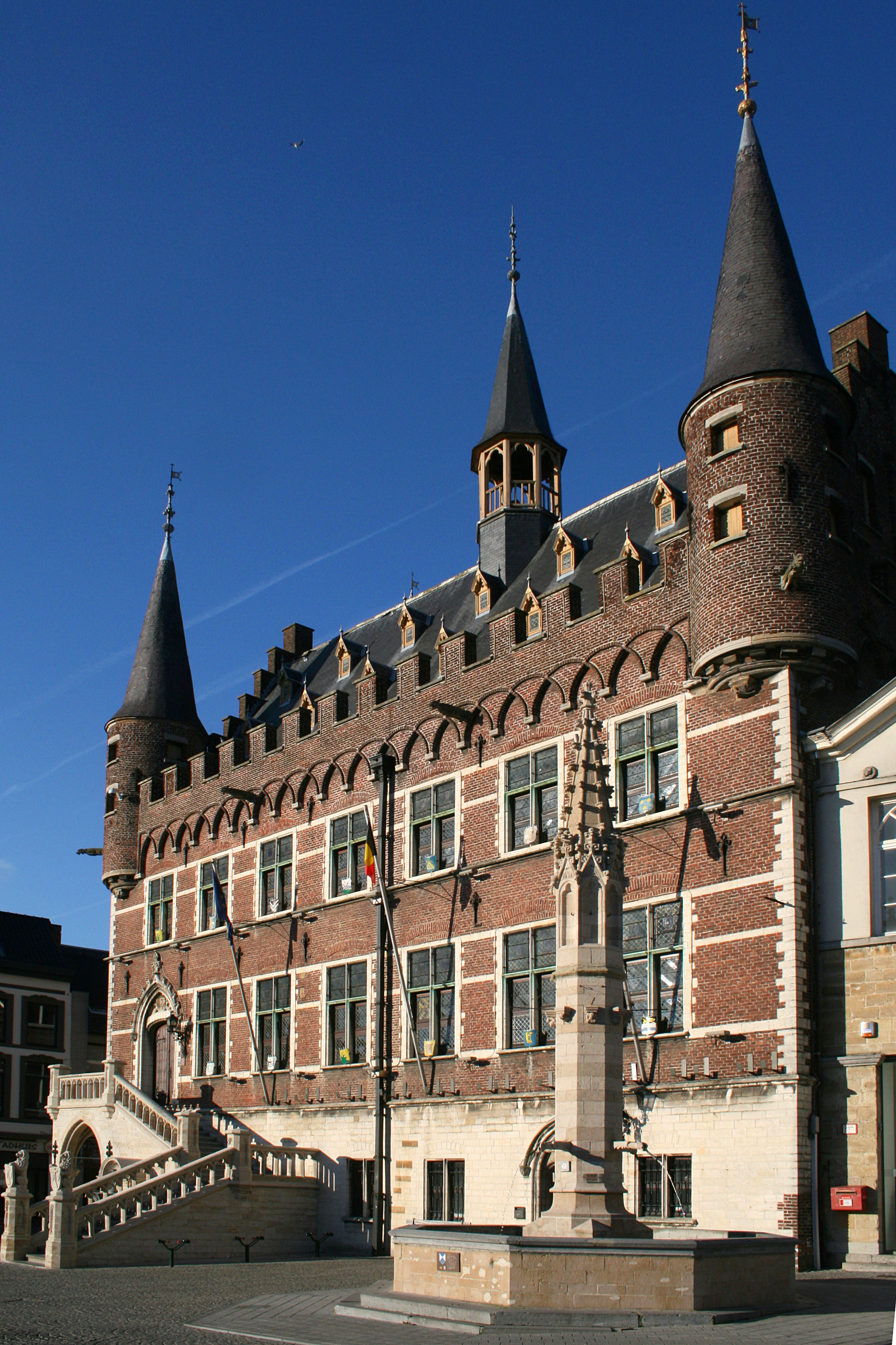 Geraardsbergen (Belgium), the town hall and the Marbol fountain.